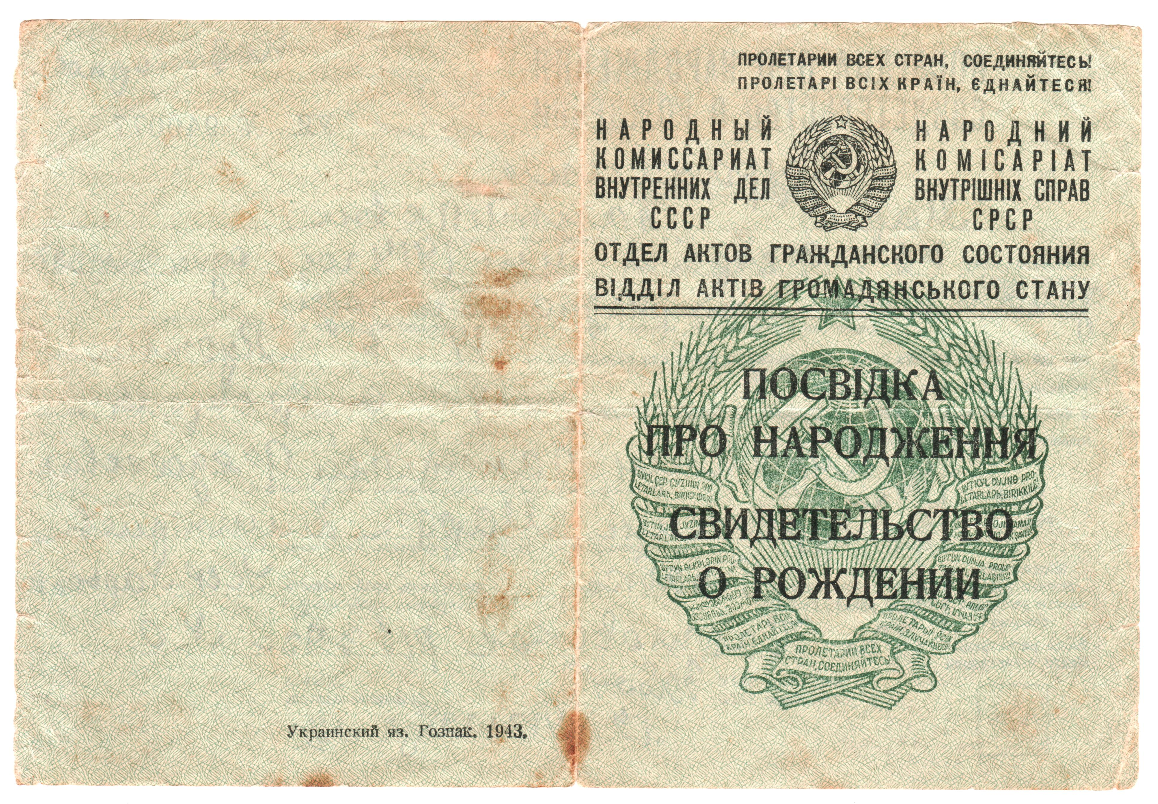 Ukrainian Soviet socialist Republic